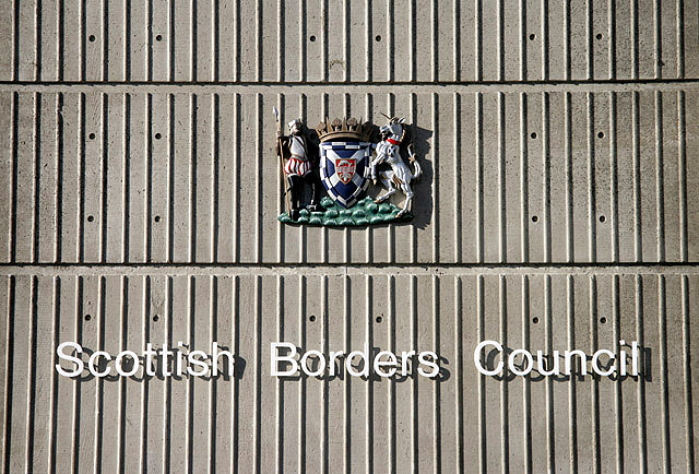 A detail on the Scottish Borders Council Headquarters building. A close up of the signage and council Coat of Arms on the lower part of the tower at Newtown St Boswells. For a full view of the tower, see 1753464.